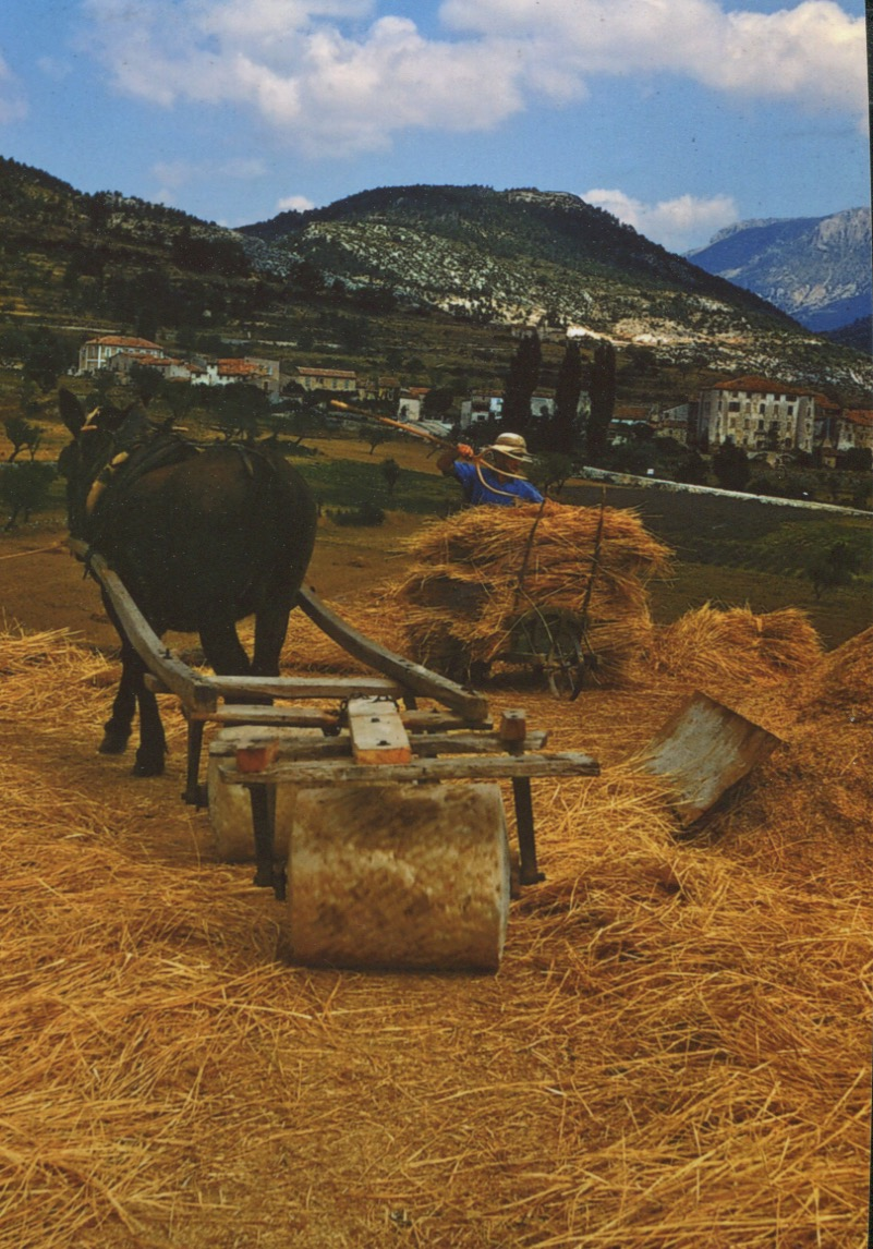 WHEAT HARWEST